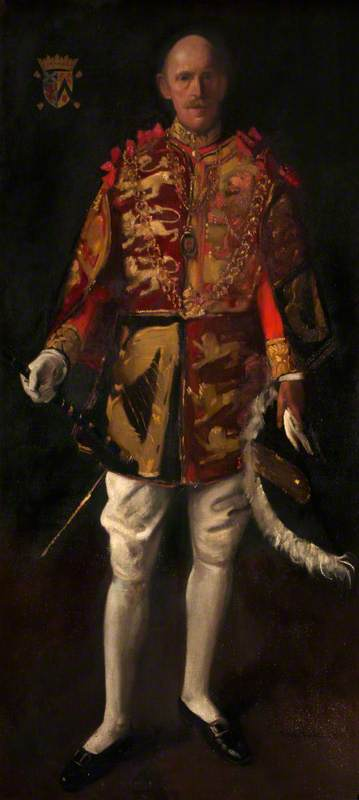 Portrait of Sir James Balfour Paul (1846–1931), Scottish officer at arms, |Lord Lyon King of Arms .